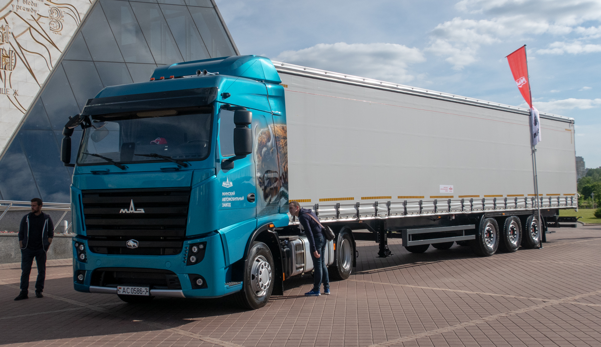 MAZ-5440M9 with Mercedes-Benz OM 471 (Euro-6) motor. BAMAP-2019 exhibition (Minsk, Belarus)